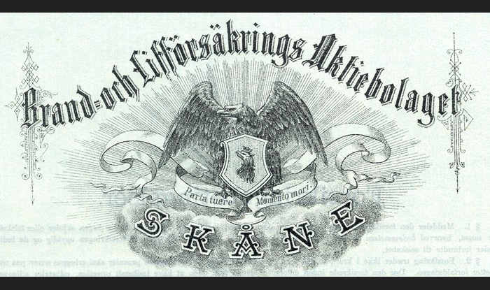 The logotype in use 1885-1900 for the Swedish insurance company Brand- och lifförsäkrings AB Skåne